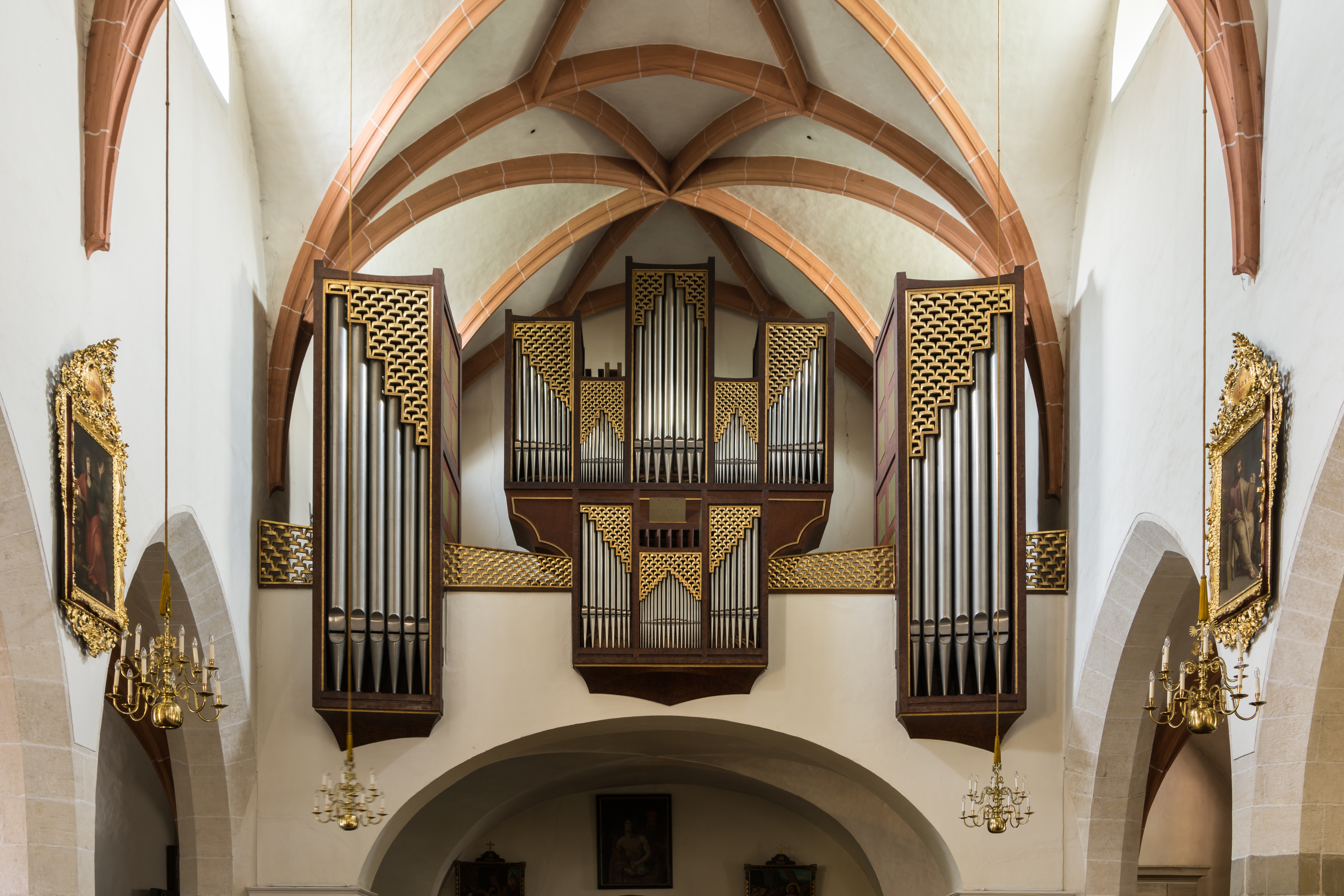 Organ of St. Stephen's parish church in Tulln an der Donau, Lower Austria.